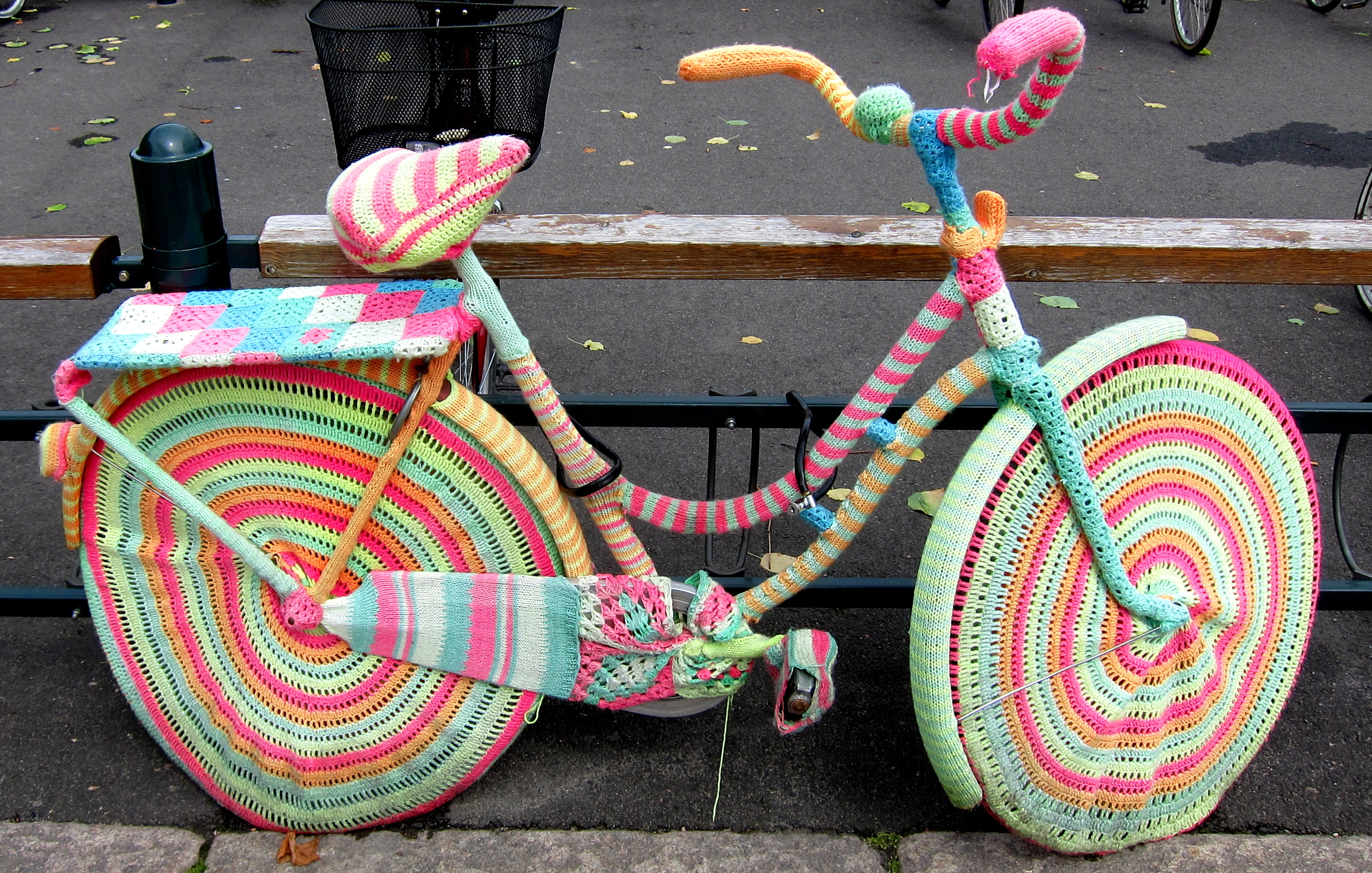 Yarn bombing specimen in Lidköping, Sweden